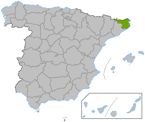 Location of the province of Gerona, in Spain. Basado en: ProvPont.jpg Source: Designed by Satesclop. Original picture, designed by Sobreira.